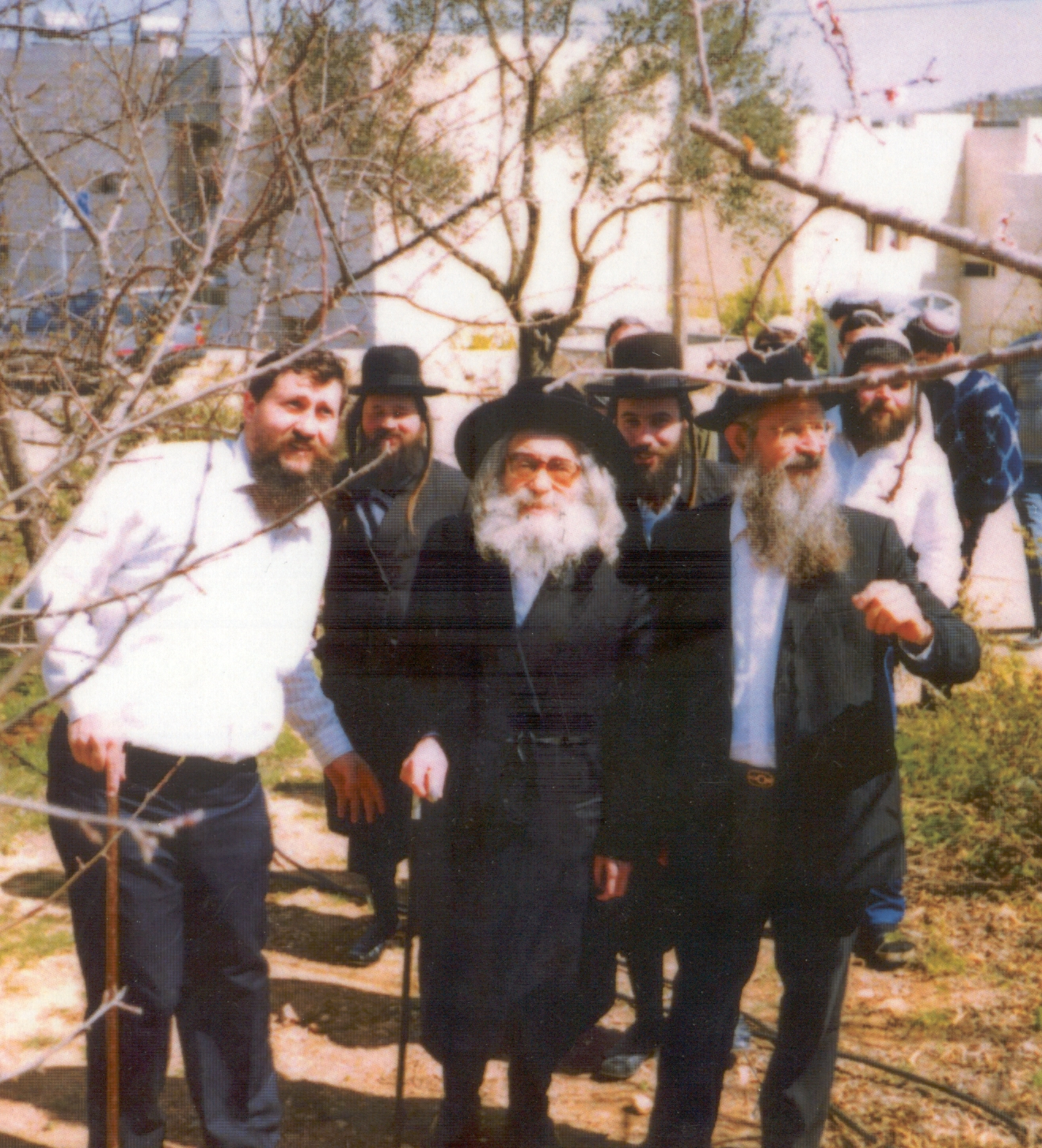 Ya'akov Katz (Katzele)